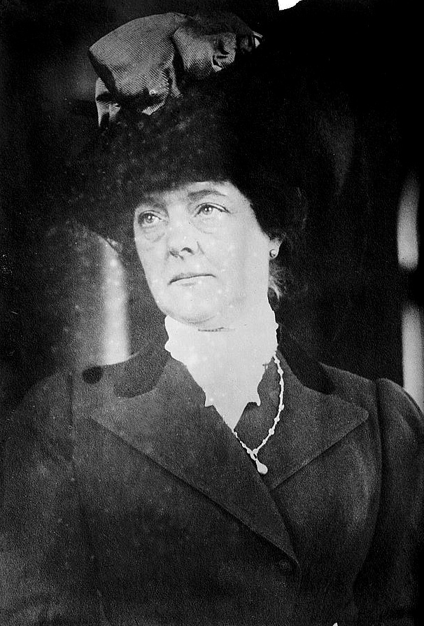 "Mrs. Burke Roche" An undated image, from the Bain News Service, of Mrs Burke Roche. From the dates, this will be Frances Work.